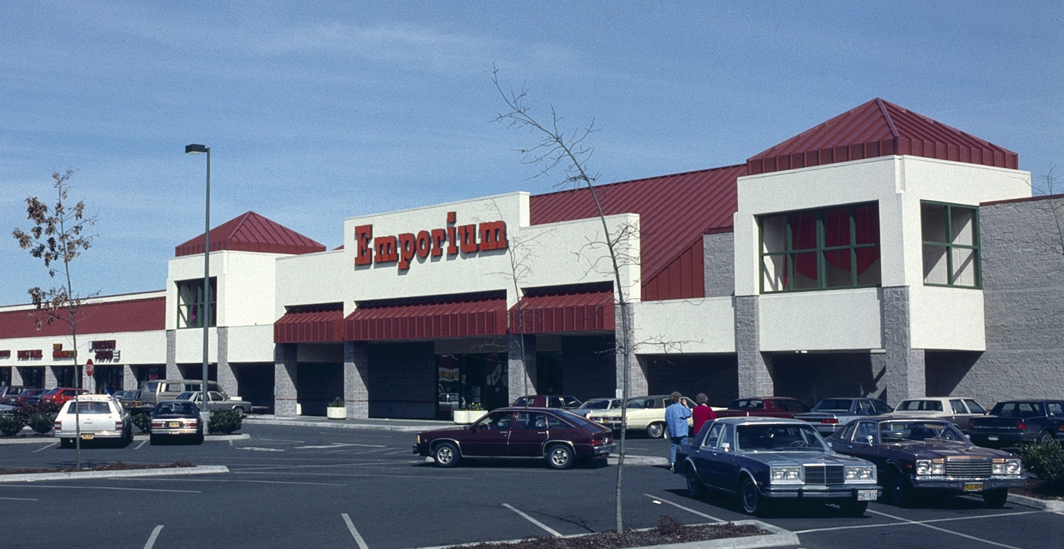 The Emporium store at the Gresham Town Fair shopping center, in Gresham, Oregon, in 1989. The shopping center, located on Eastman Parkway at Division Street, opened in 1987.